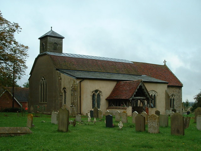 Church of St Peter in Lindsey, Suffolk, England. A Grade I listed medieval church.